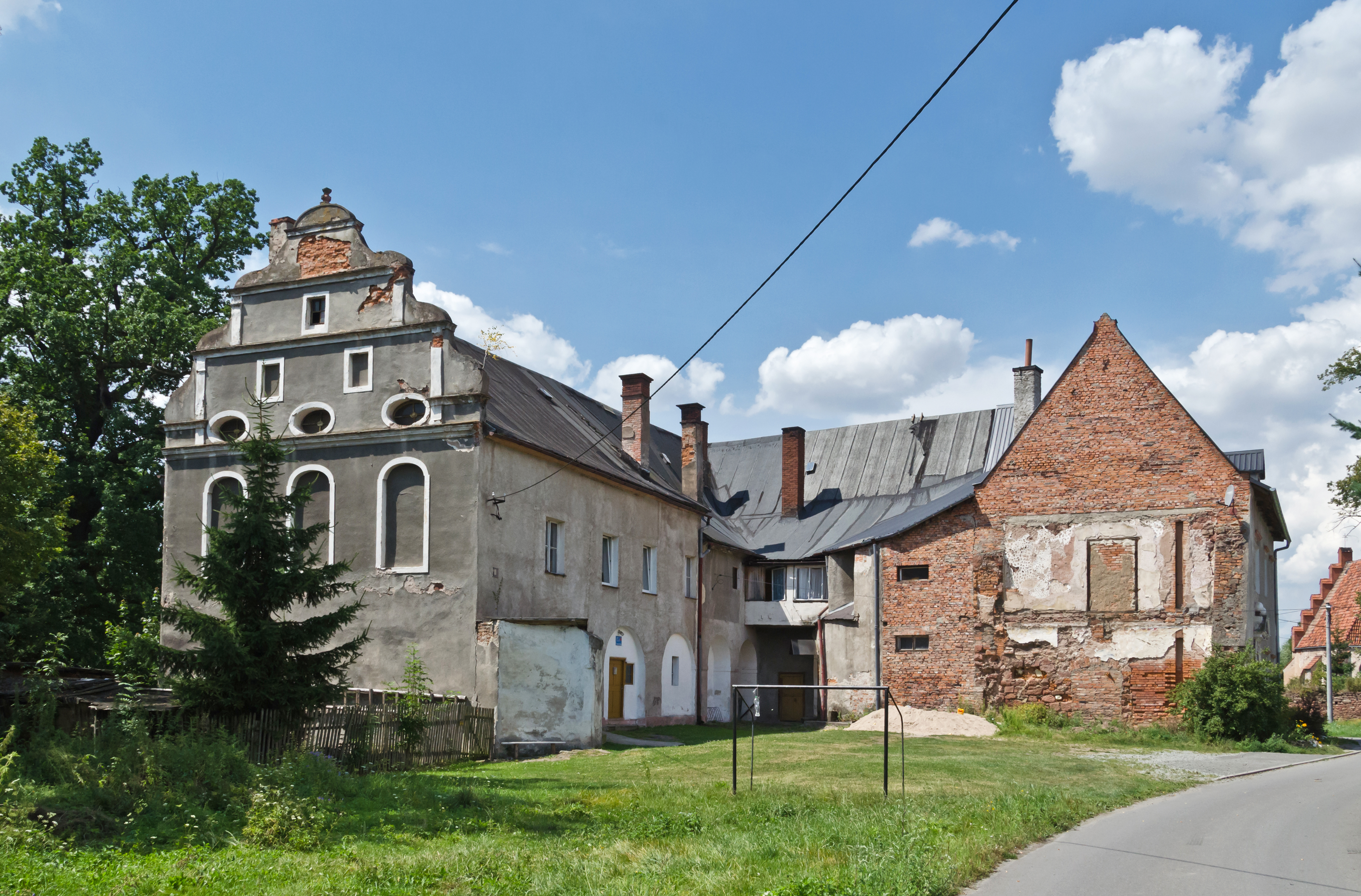 Manor in Ścinawka Dolna